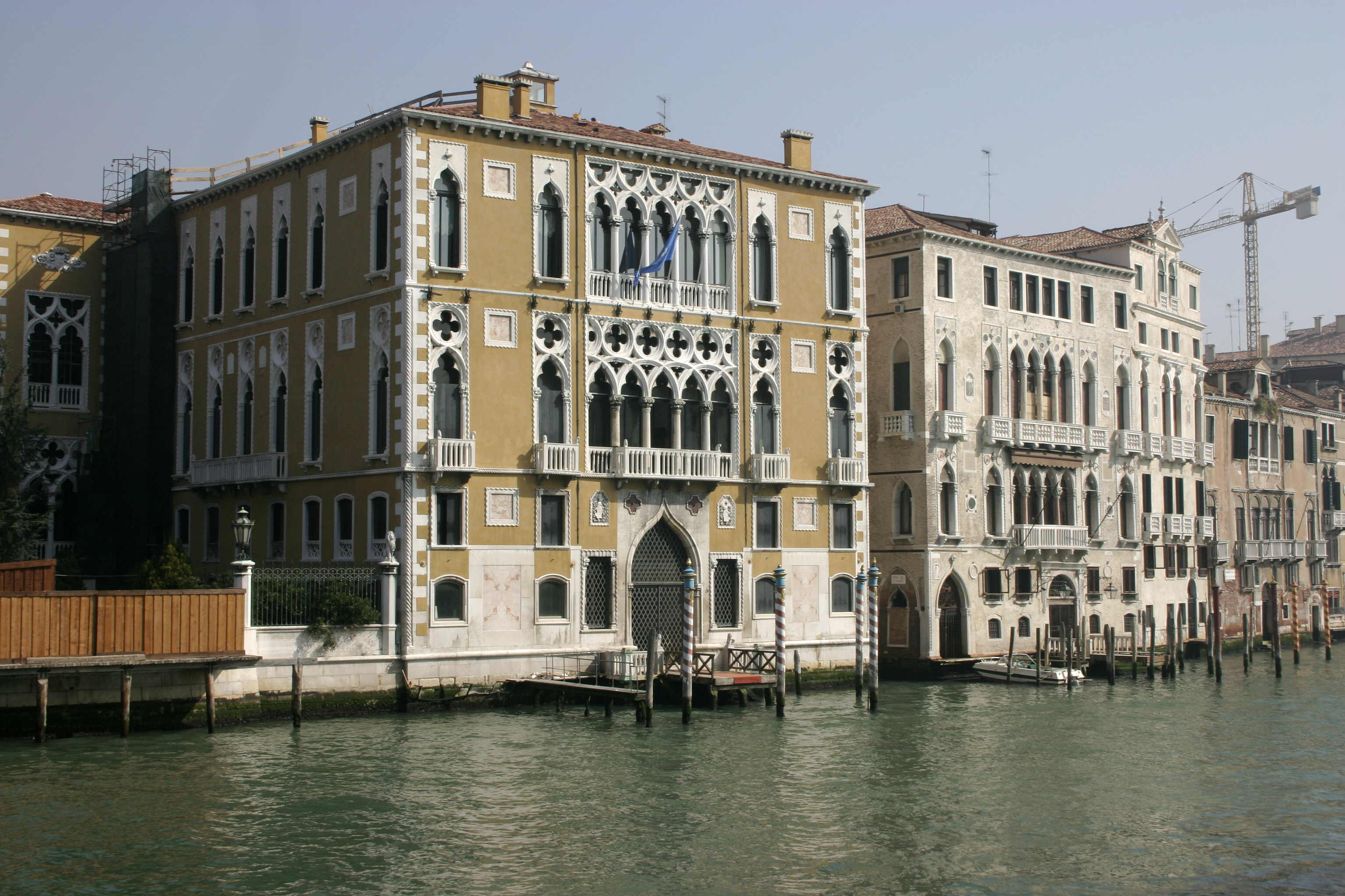 Palace Cavalli-Franchetti (left) & Palace Barbaro (right) in Venice – Grand canal